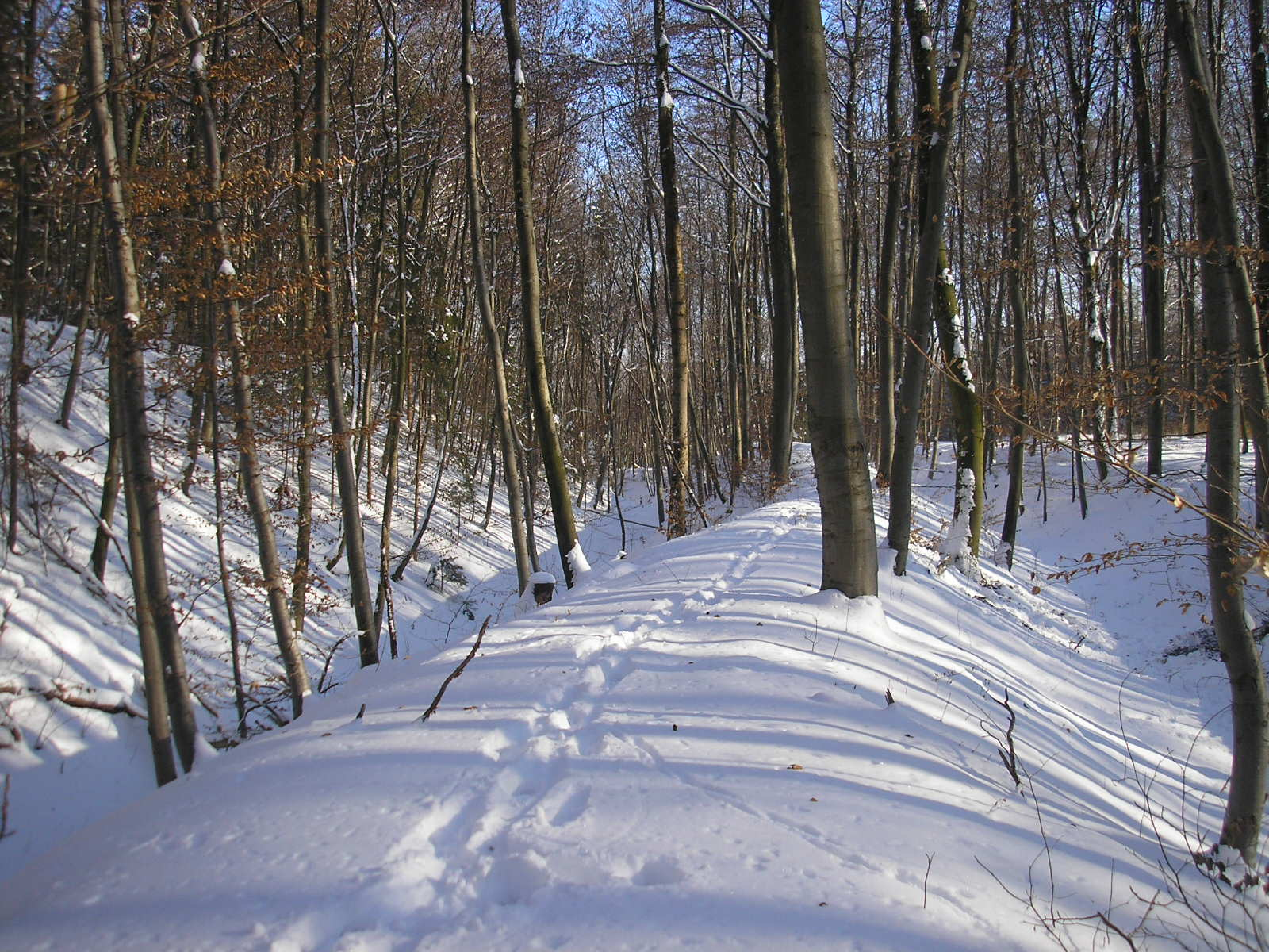 Early Middle Ages hill fort "Birg" near Hohenschäftlarn (Baierbrunn, Landkreis München, Upper Bavaria). The central earthworks, looking east